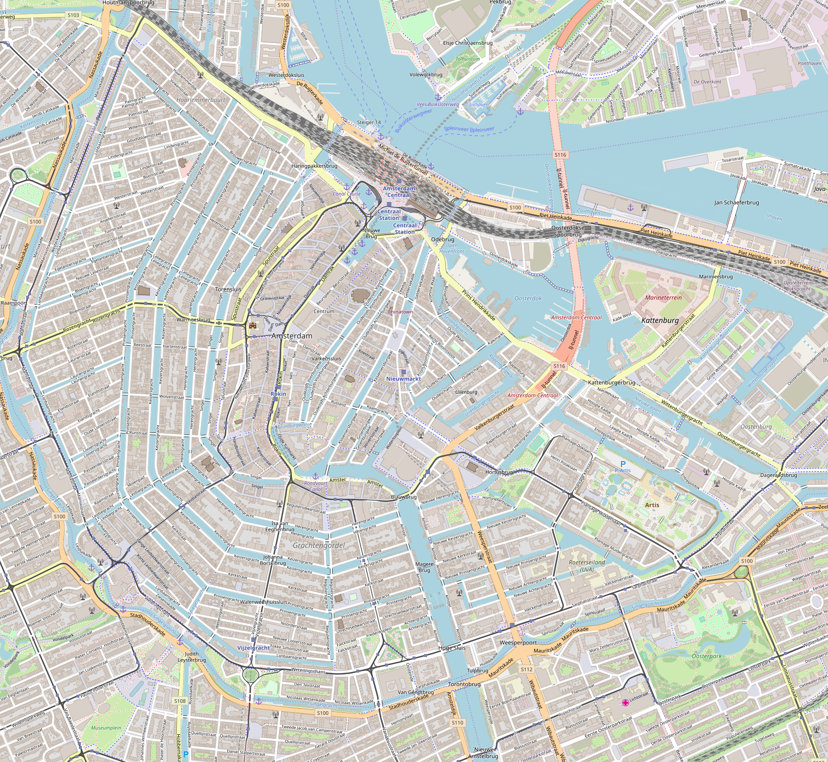 Map of Amsterdam Geographic limits of the map: N: 52.3861° S:52.3558° W: 4.8746° E: 4.9285°